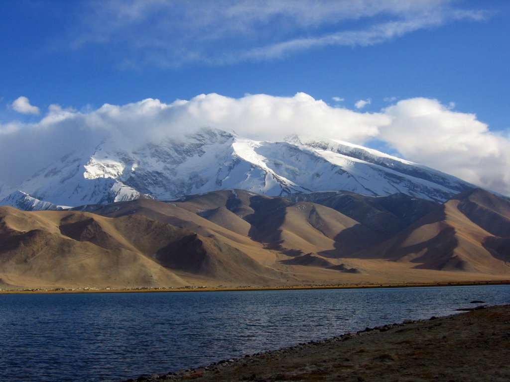 Mt. Muztagh Ata in Karakul lake, close to Karakoram Highway in Xinjiang province (China).